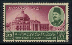 Fouad I universirty - Cairo university 1925-1950 stamp